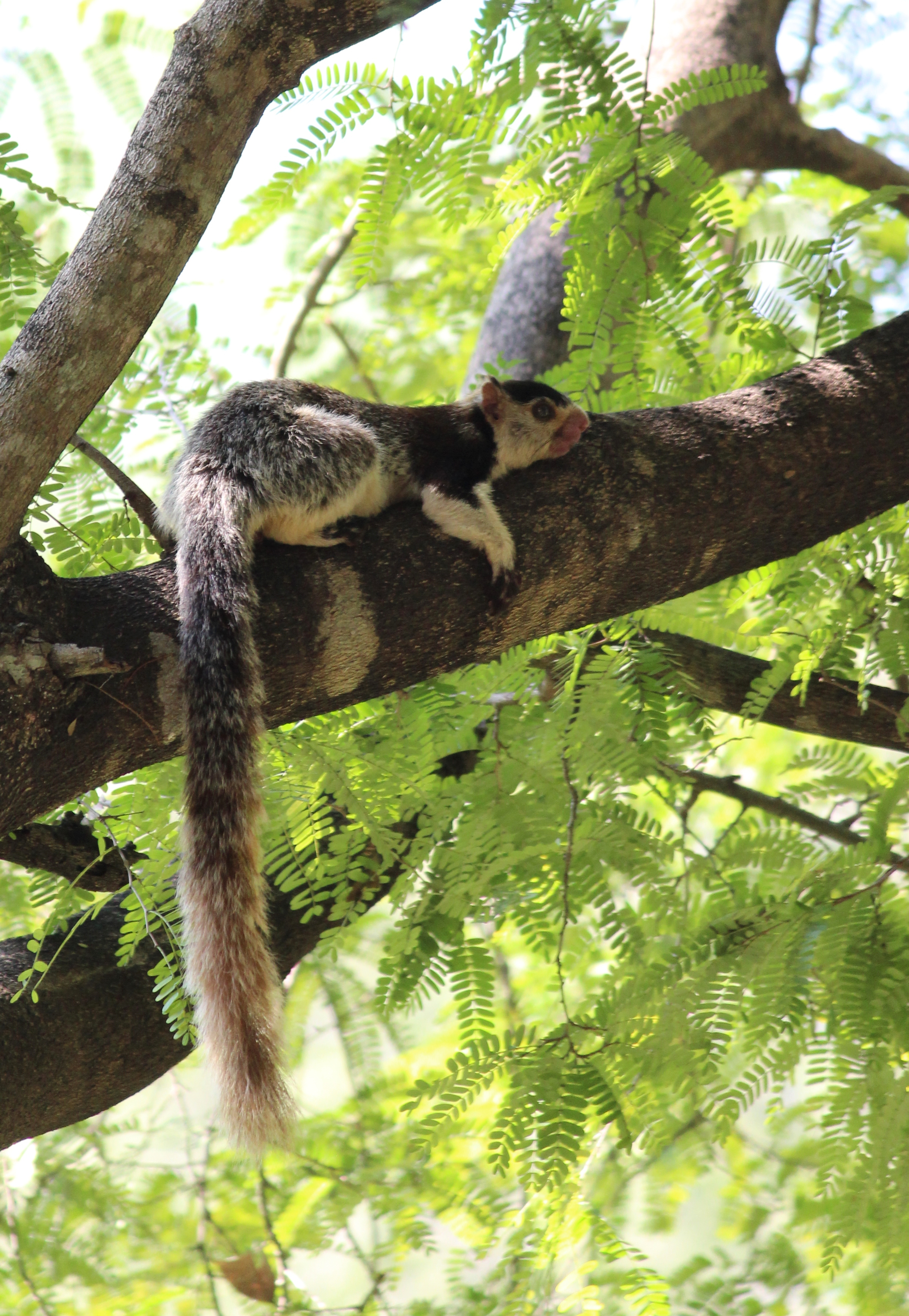 Grizzled Giant Squirrel Ratufa macroura Chinnar WLS Kerala